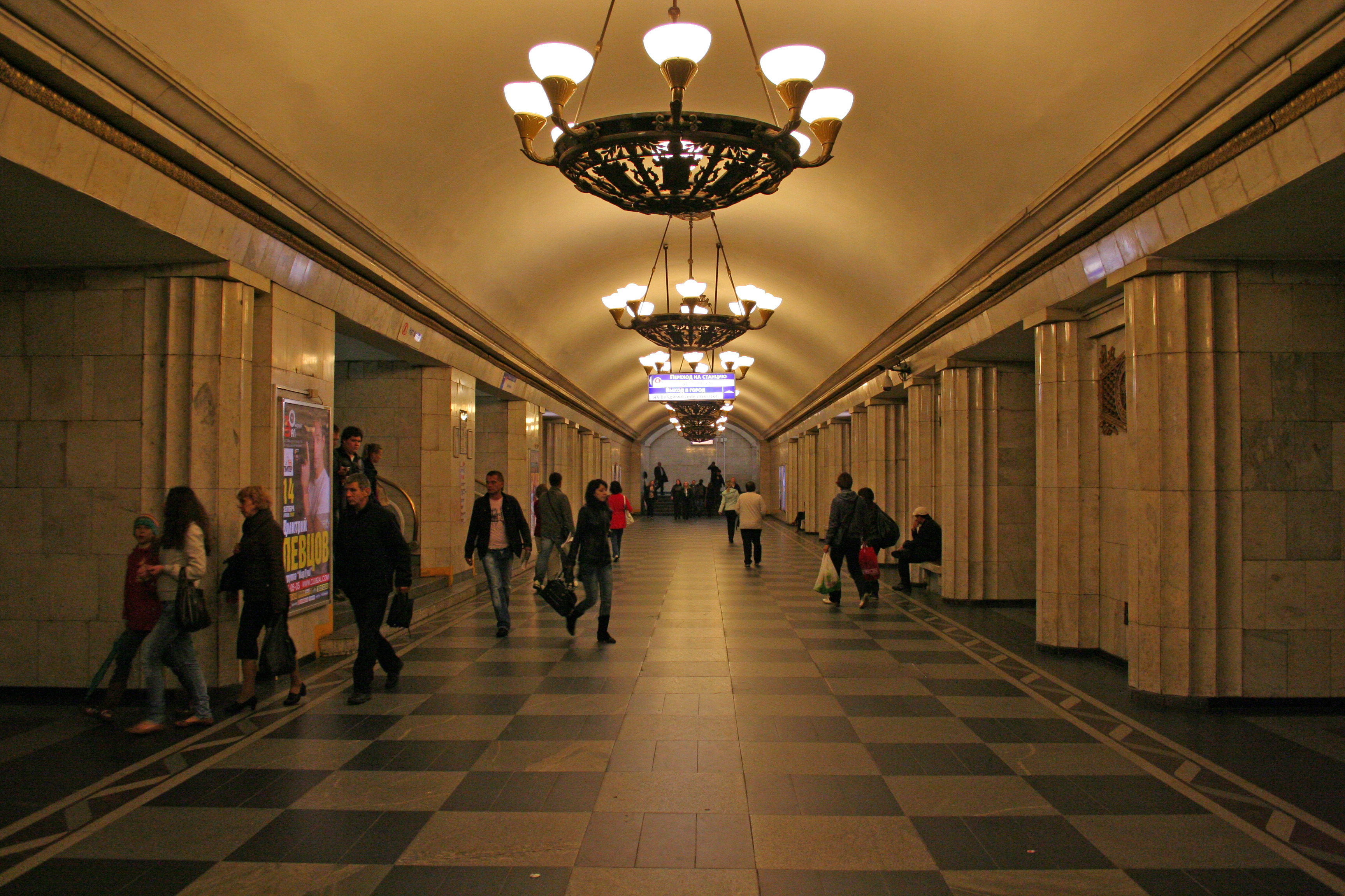 Vladimirskaya station of Saint Petersburg Metro